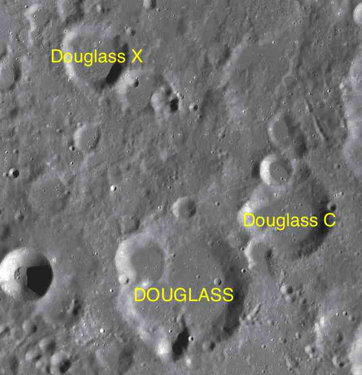 Part of the chart LAC-35 used for the presentation